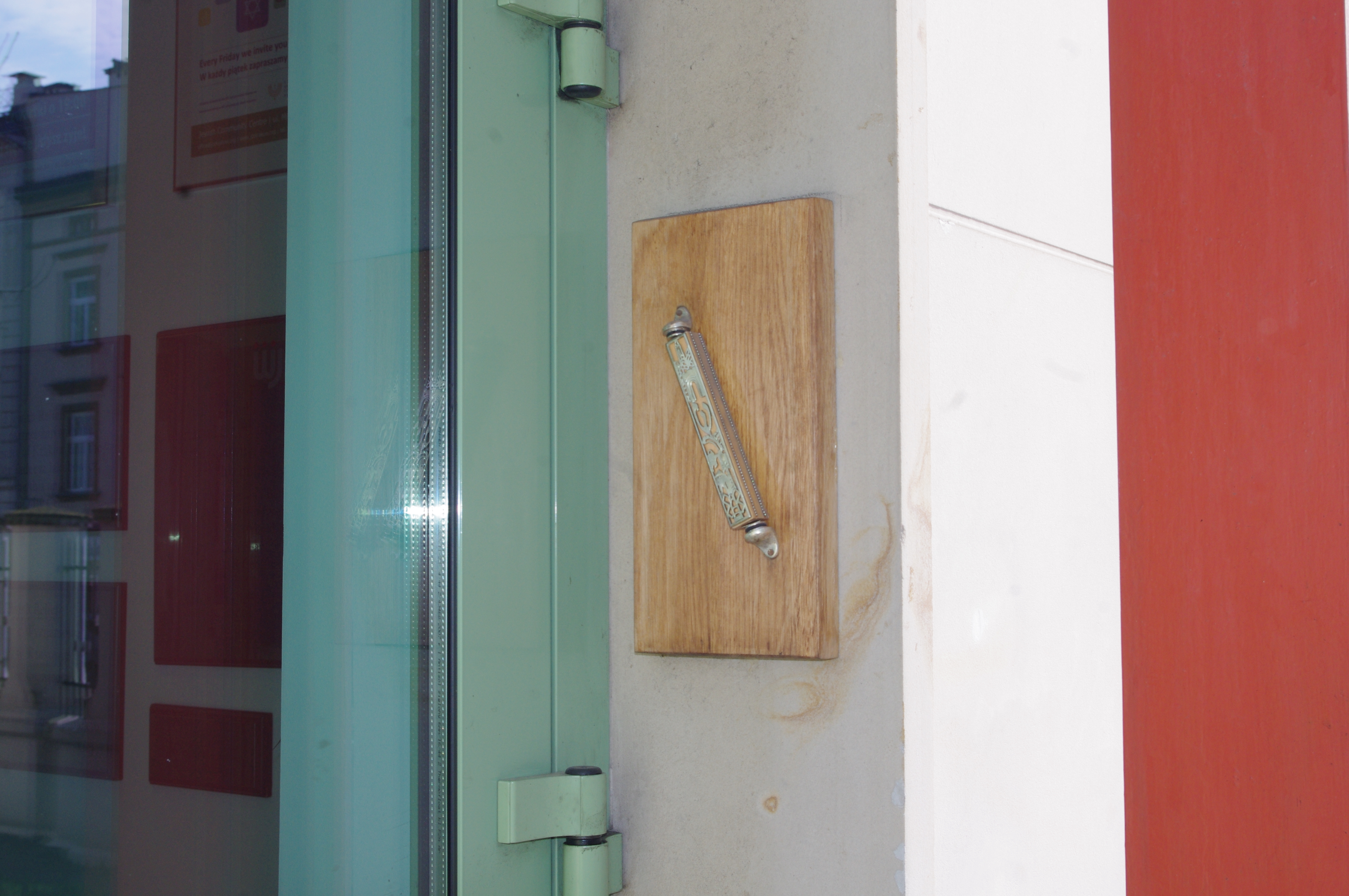 The mezuzah at Jewish Community Center in Kraków, Poland